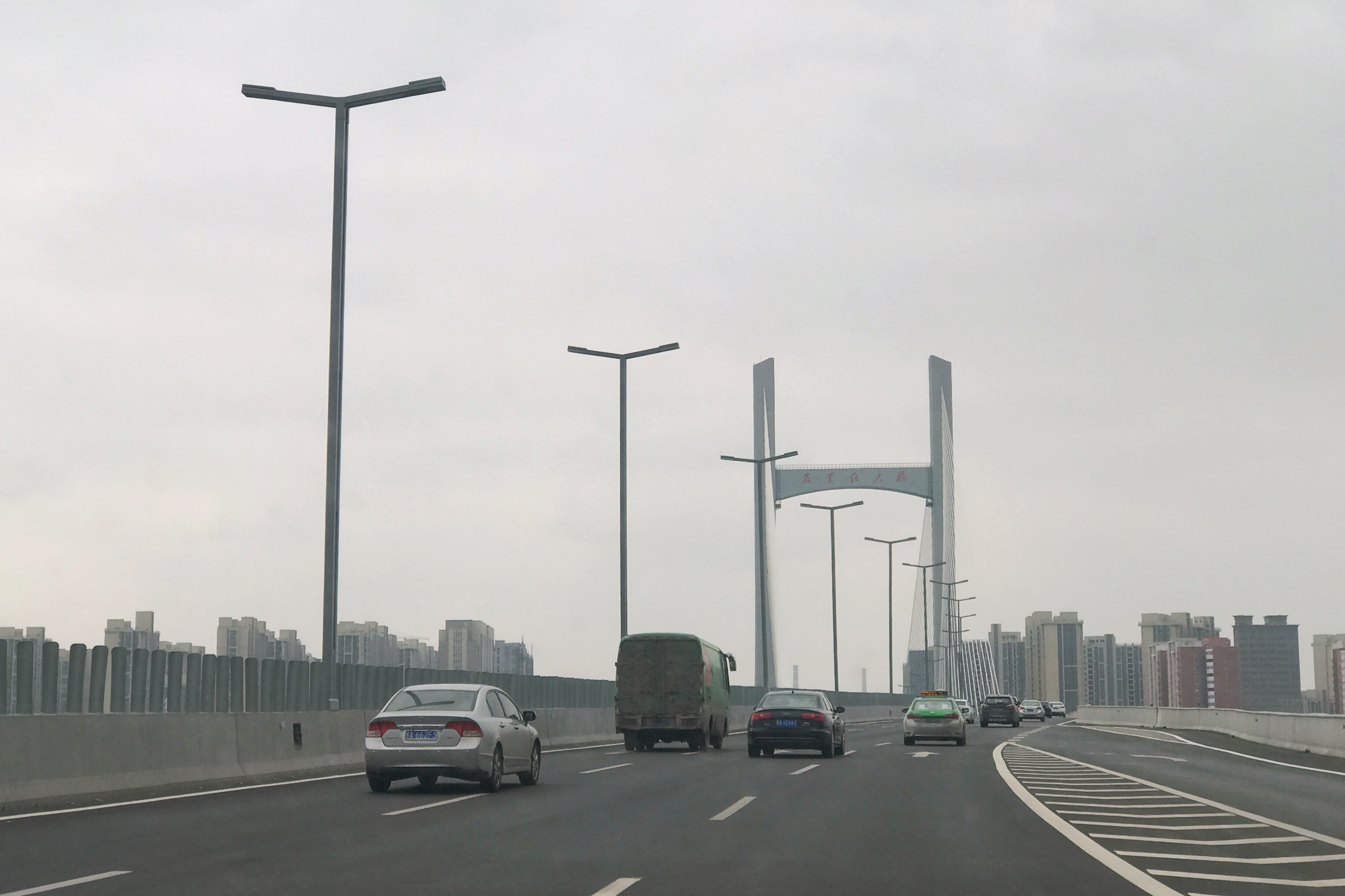 Nongye Road Bridge